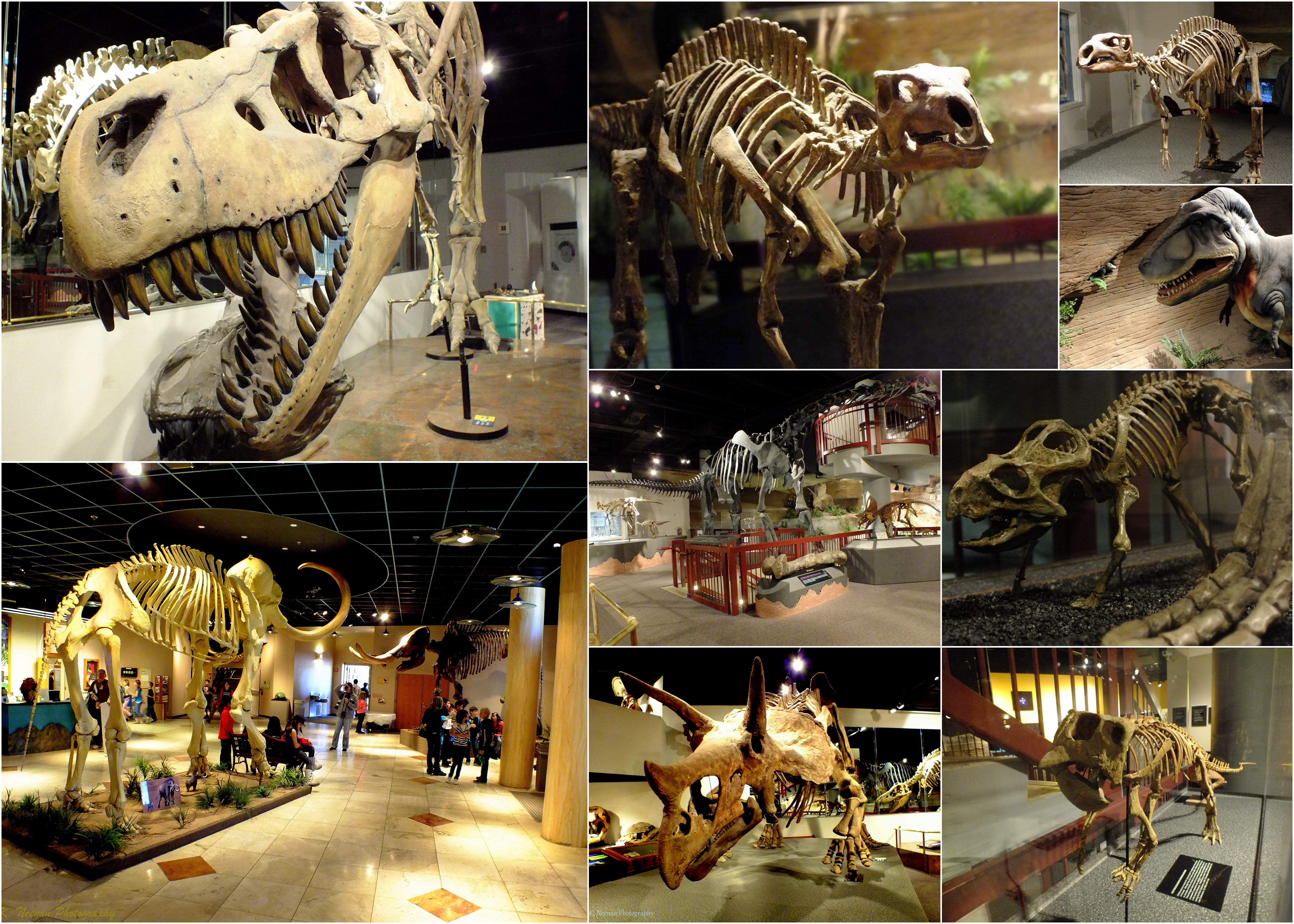 This is a collage of some of the many fossils on display at the AzMNH. Photo credit: Kathy Neenan